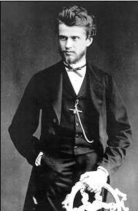 Russian conductor Eduard Napravnik